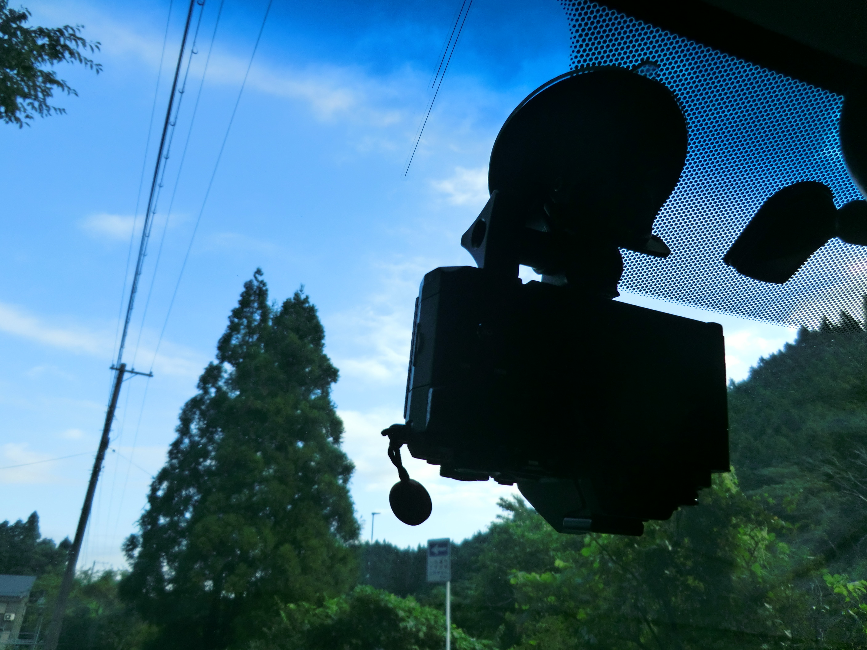 Camera(OLYMPUS OM-D E-M5 Mark II) mounted on windshield with suction cup (Delkin devices Fat Gecko Stealth Mount)